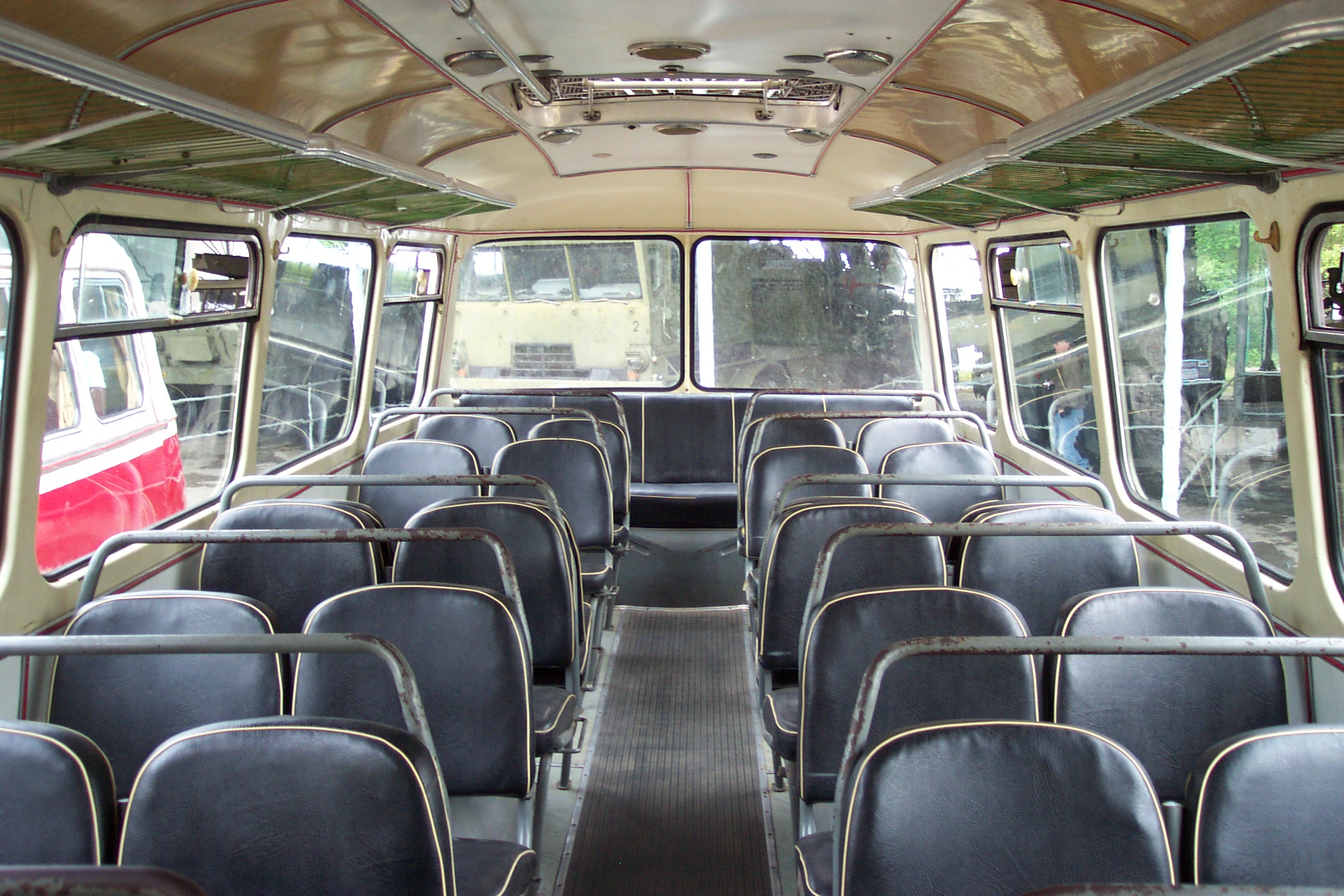 Škoda RTO bus (liner) in VTM Lešany museum, inside the bus.